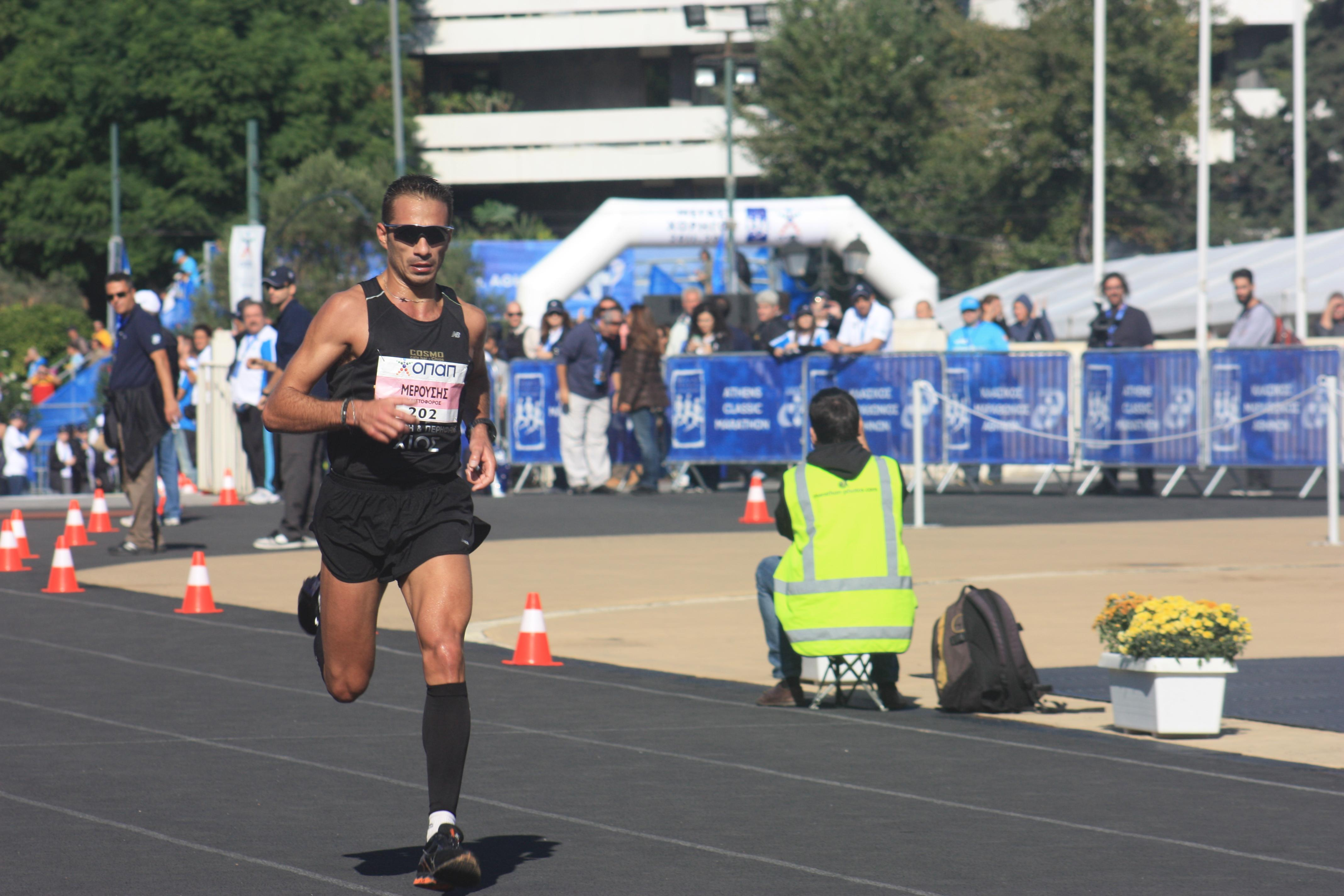 Christophoros Merousis, Greek athlete, Steeplechase runner